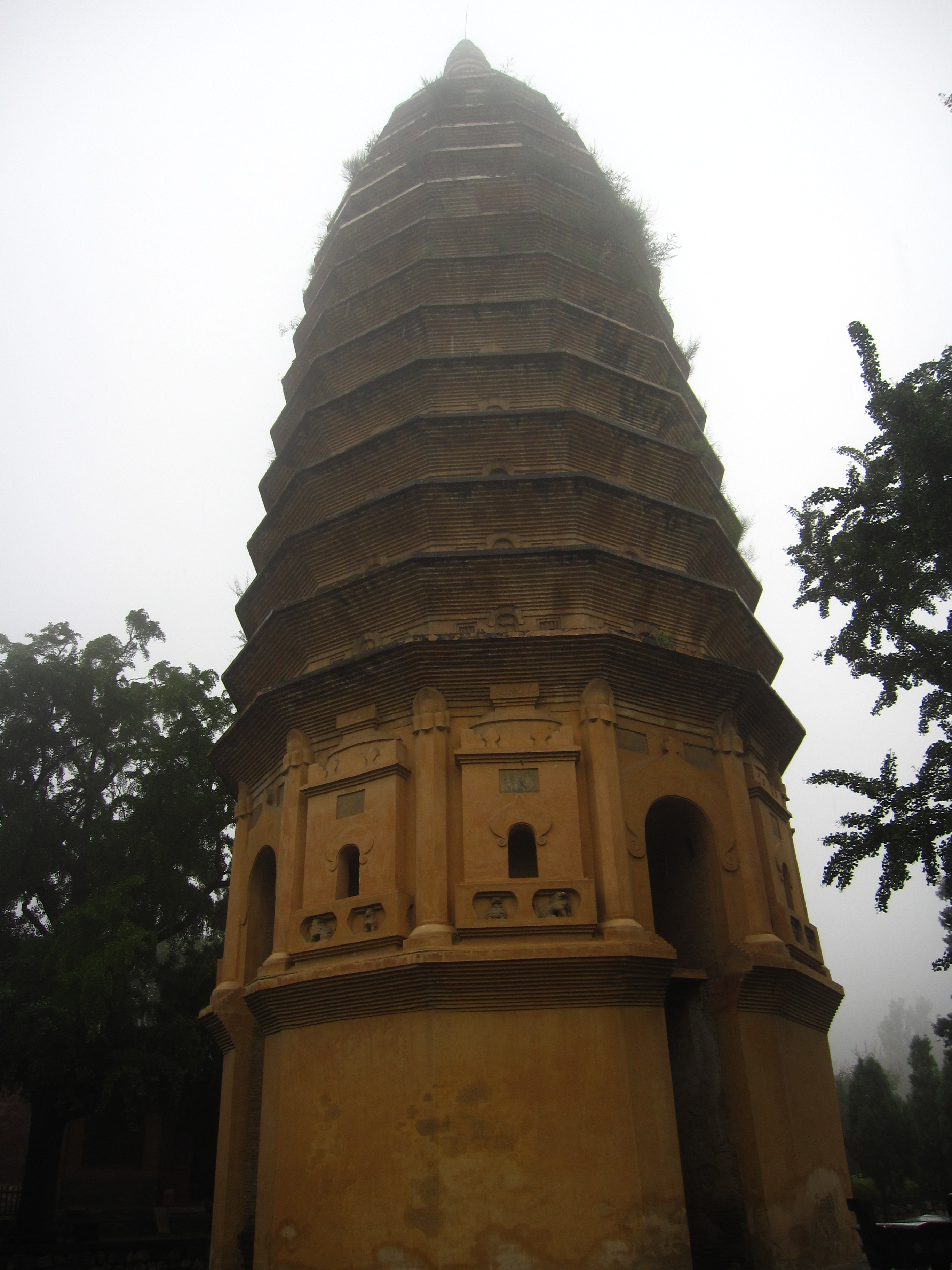 The Songyue Pagoda in Dengfeng, China